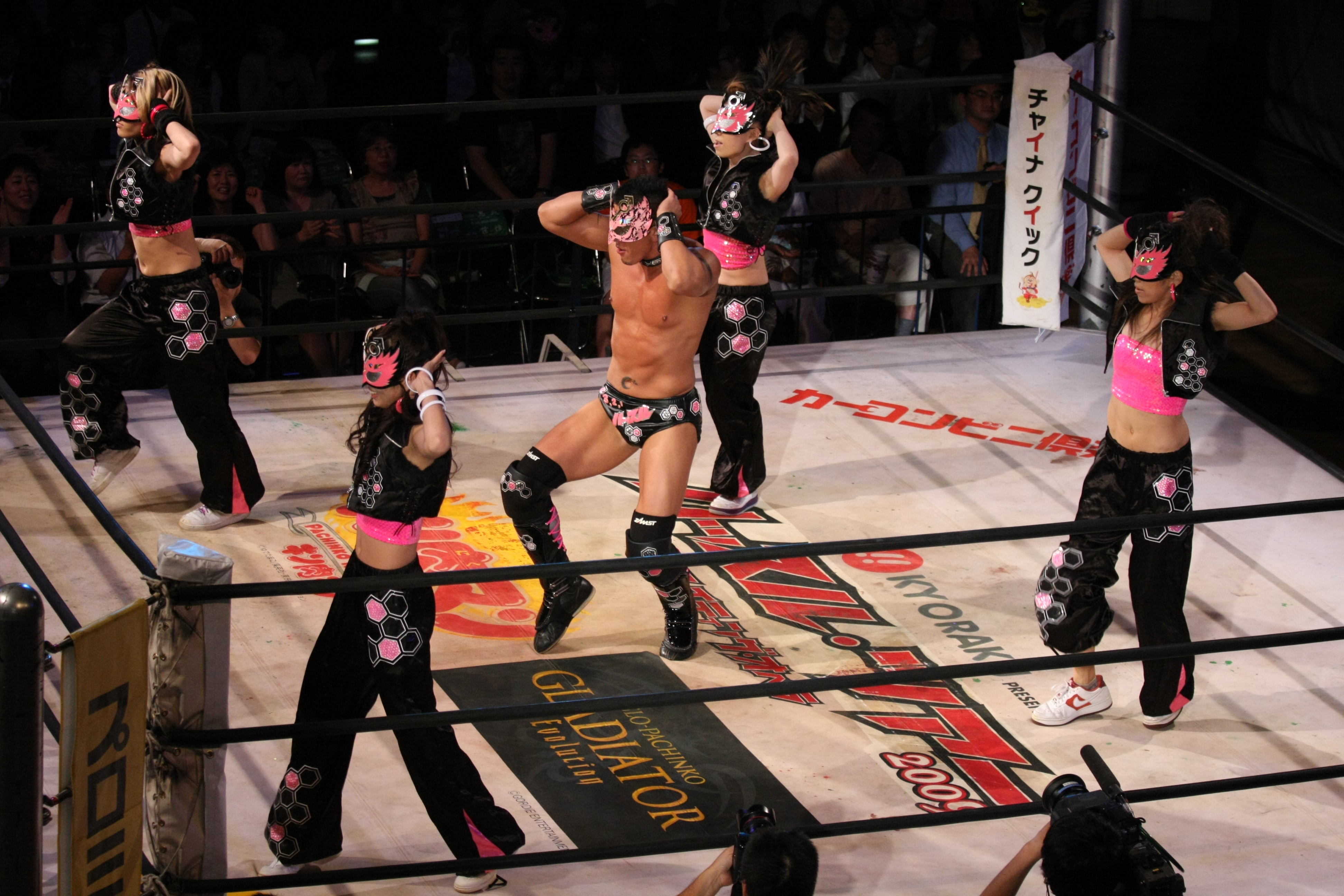 Professional wrestler Magnum TOKYO in the ring during his ring entrance, surrounded by his dance troupe.